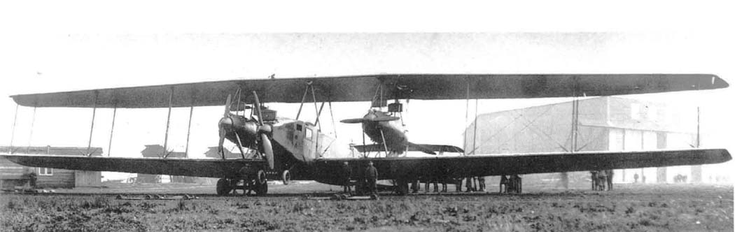 Photo of Zeppelin-Staaken R.XIV WW1 aircraft samf4u, 4.jpg